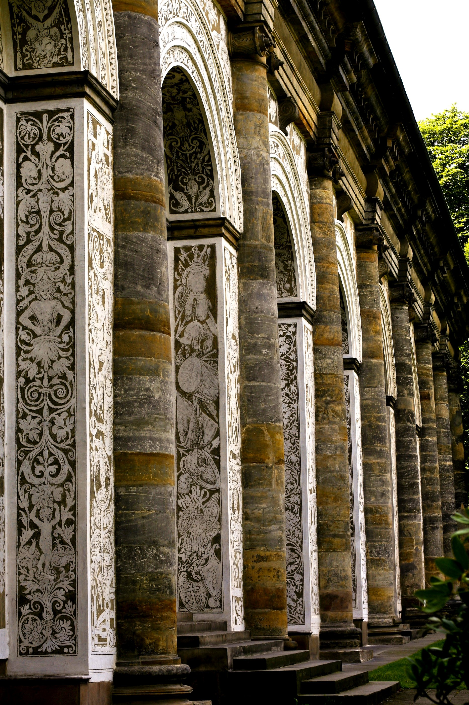 Sgraffito on the Ball Game Hall in Royal Garden